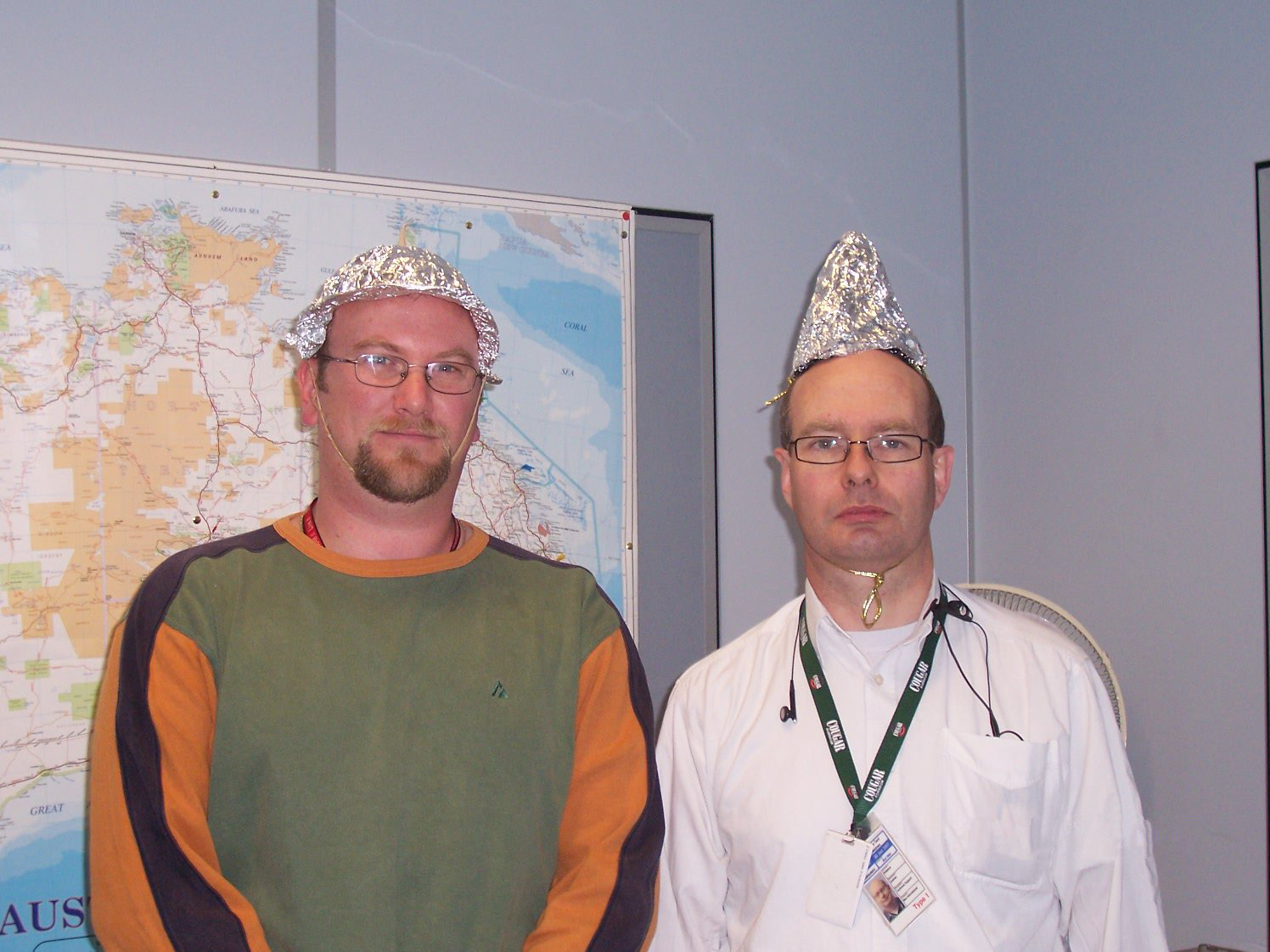 Two people wearing protective Tin Foil Hats